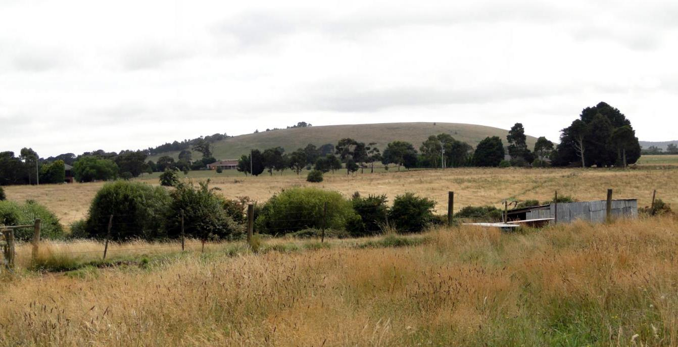 View of Mount Rowan, Victoria, Australia. This is a small extinct volcano on the edge of the city of Ballarat Victoria. Photo taken from Gillies Street, looking north.